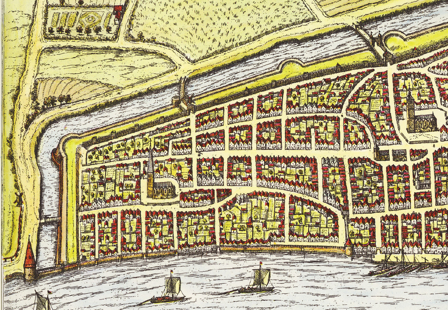 historical sight of the German town of Bremen (between 1572 and 1618)